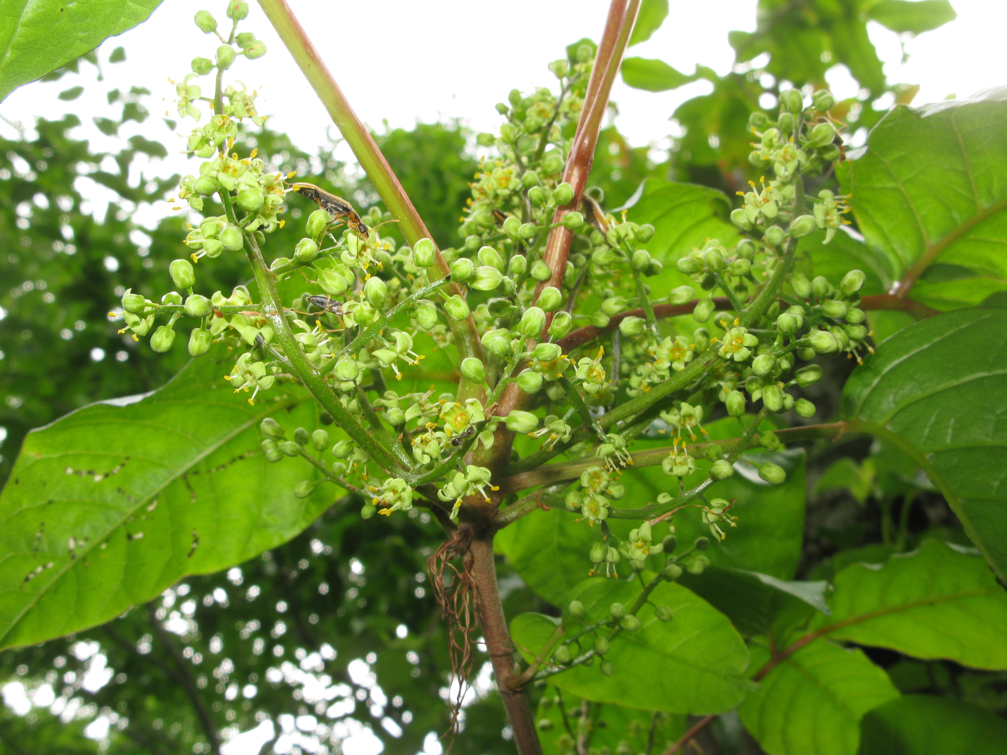 Toxicodendron orientale, male flowers, Mount Nishi-Azuma, Fukushima pref., Japan